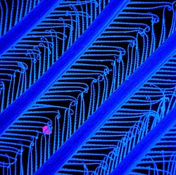 The image above shows part of the filter structure of the Antarctic krill: The first order filter setae have the second order setae attached to them. The second order setae are aligned in rows, these rows form a v-shape, the v shape of the setae are aligned towards the inside of the feeding basket. The purple ball shown trapped in the second order setae is one micrometer big, it is possible that this is a bacterium. To display the total area of this fascinating structure one would have to reproduce this image tile 7500 times.